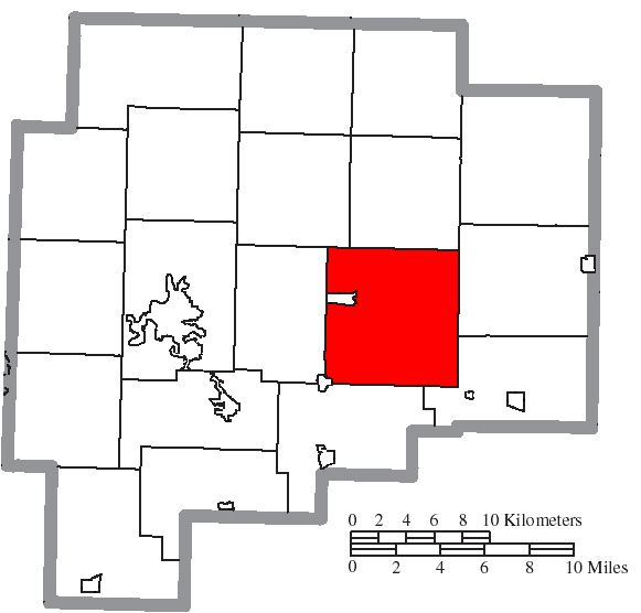 Map of the municipal and township boundaries of Guernsey County, Ohio, United States, as of the 2000 census, with the location of Wills Township highlighted. Township borders are shown only in unincorporated areas in order to differentiate incorporated and unincorporated areas more clearly.